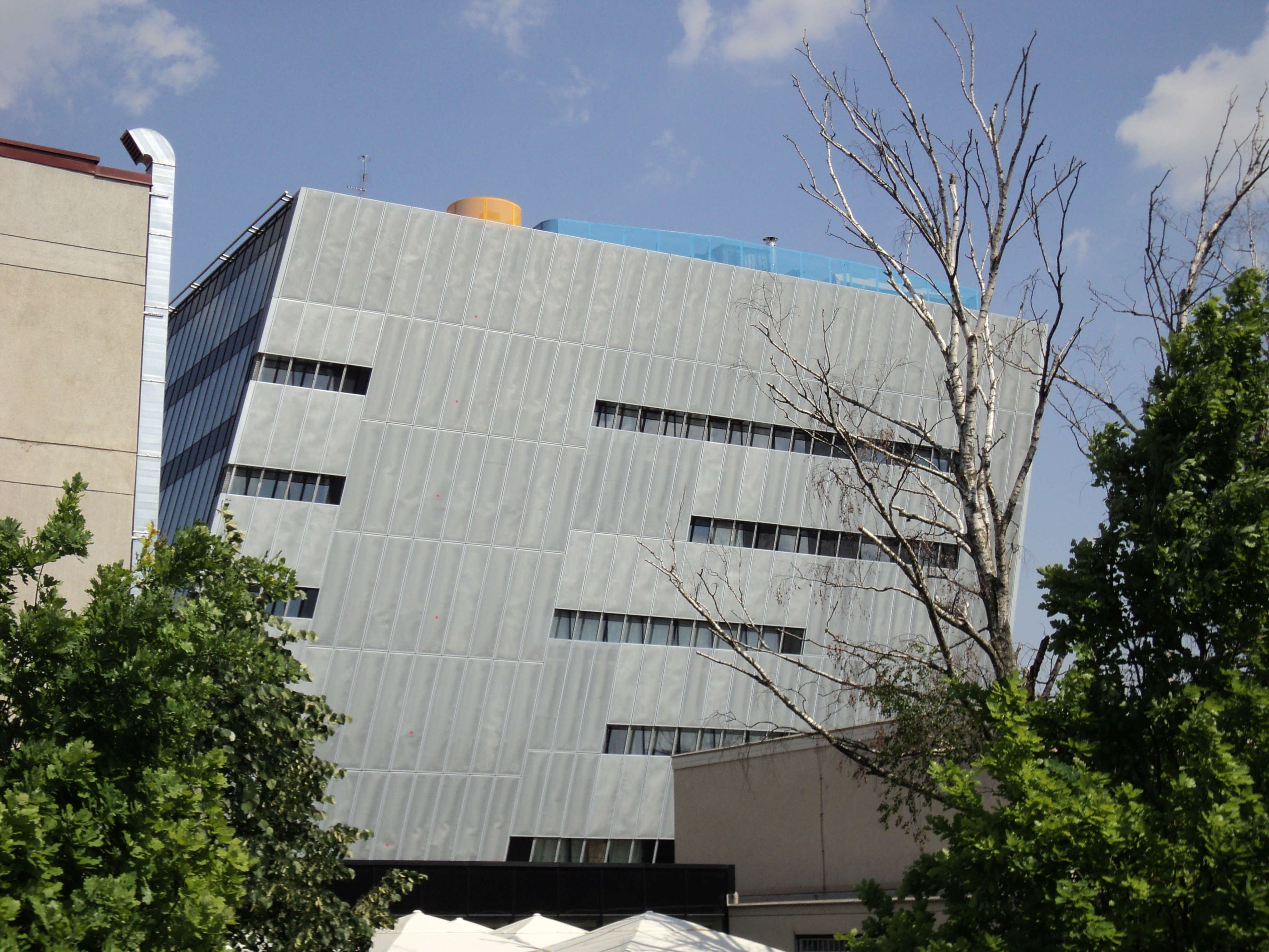 Library of the Faculty of humanities and social sciences in Zagreb.